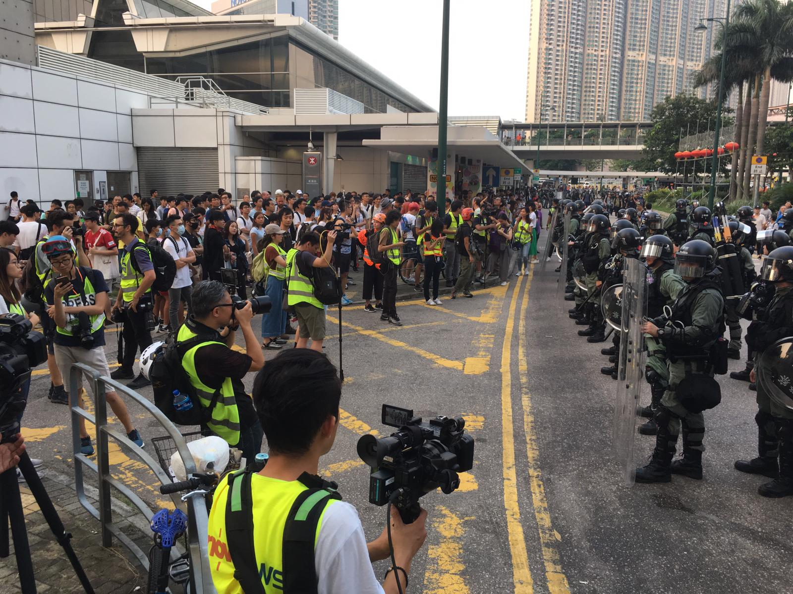 Police force outside Tung Chung Station